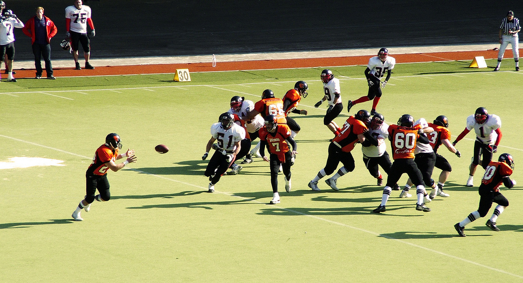 Velodromo Vigorelli - Milano, Rhinos Milano American Football Club